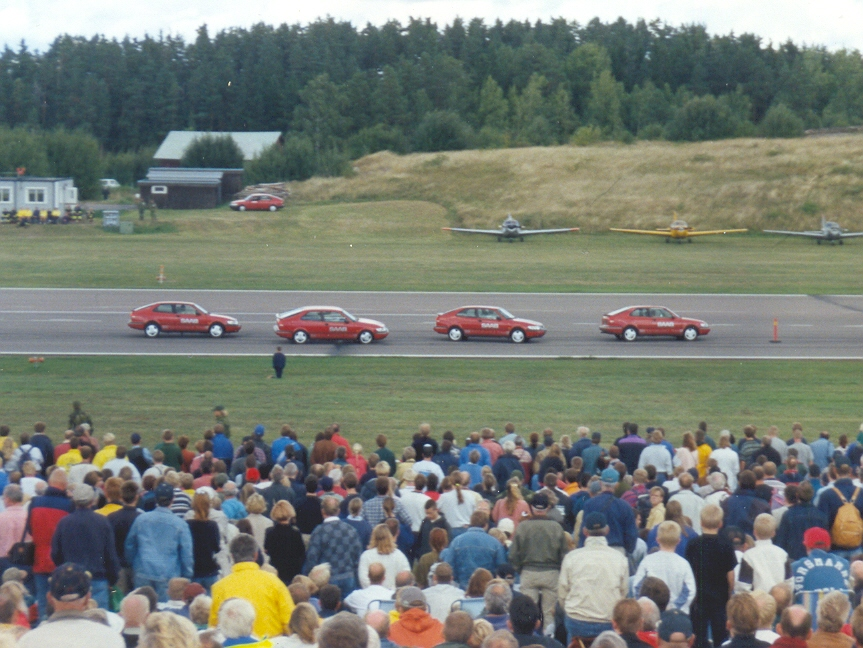 Saab Performance Team. (del) (cur) 17:58, 22 April 2006 . . Ballista (Talk) . . 863x648 (335806 bytes) (my own photo GFDL-self Talk )